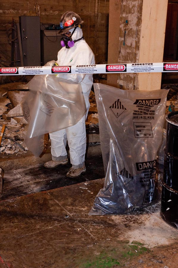 The building was constructed at a time when asbestos and lead paint were commonly used.